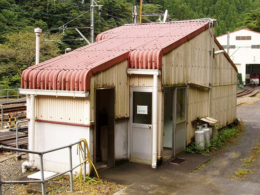 ABT Ichishiro Sta.